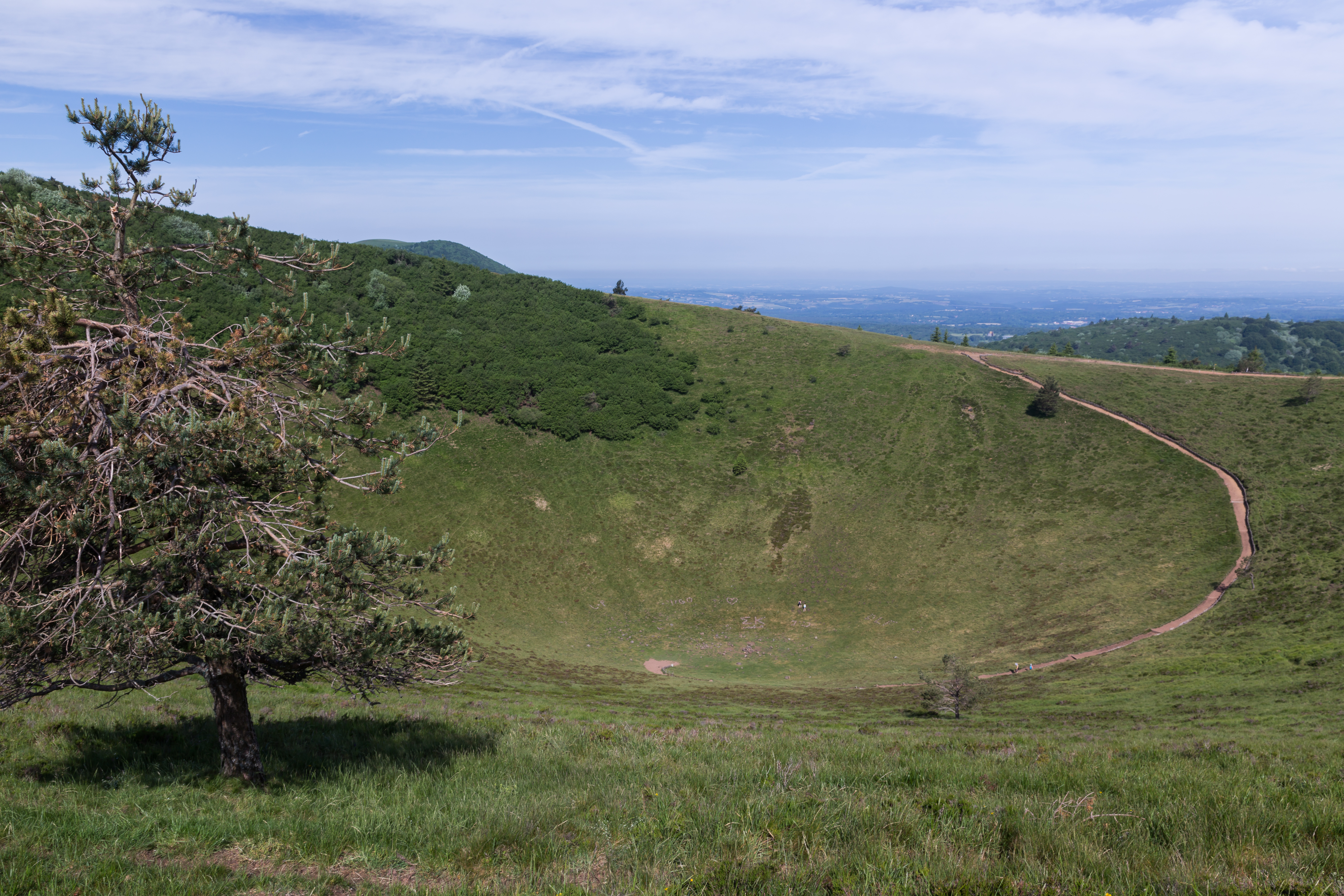 Puy Pariou crater, east view, in Auvergne, France.